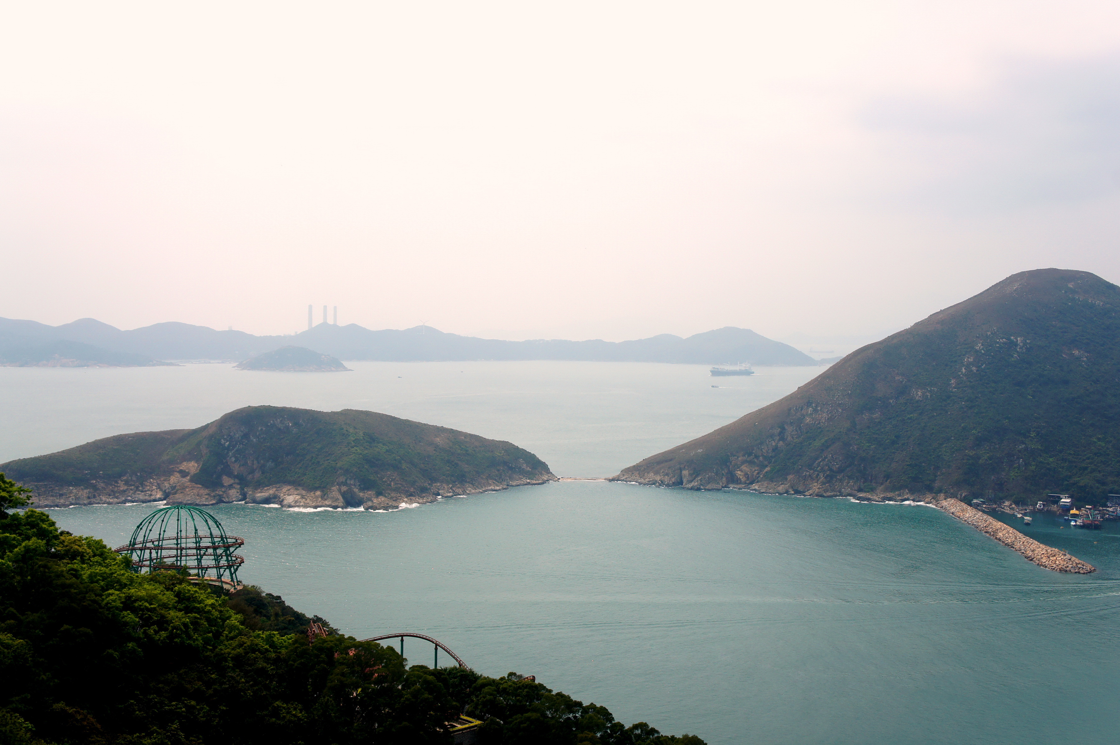 Ap Lei Pai, Hong Kong.